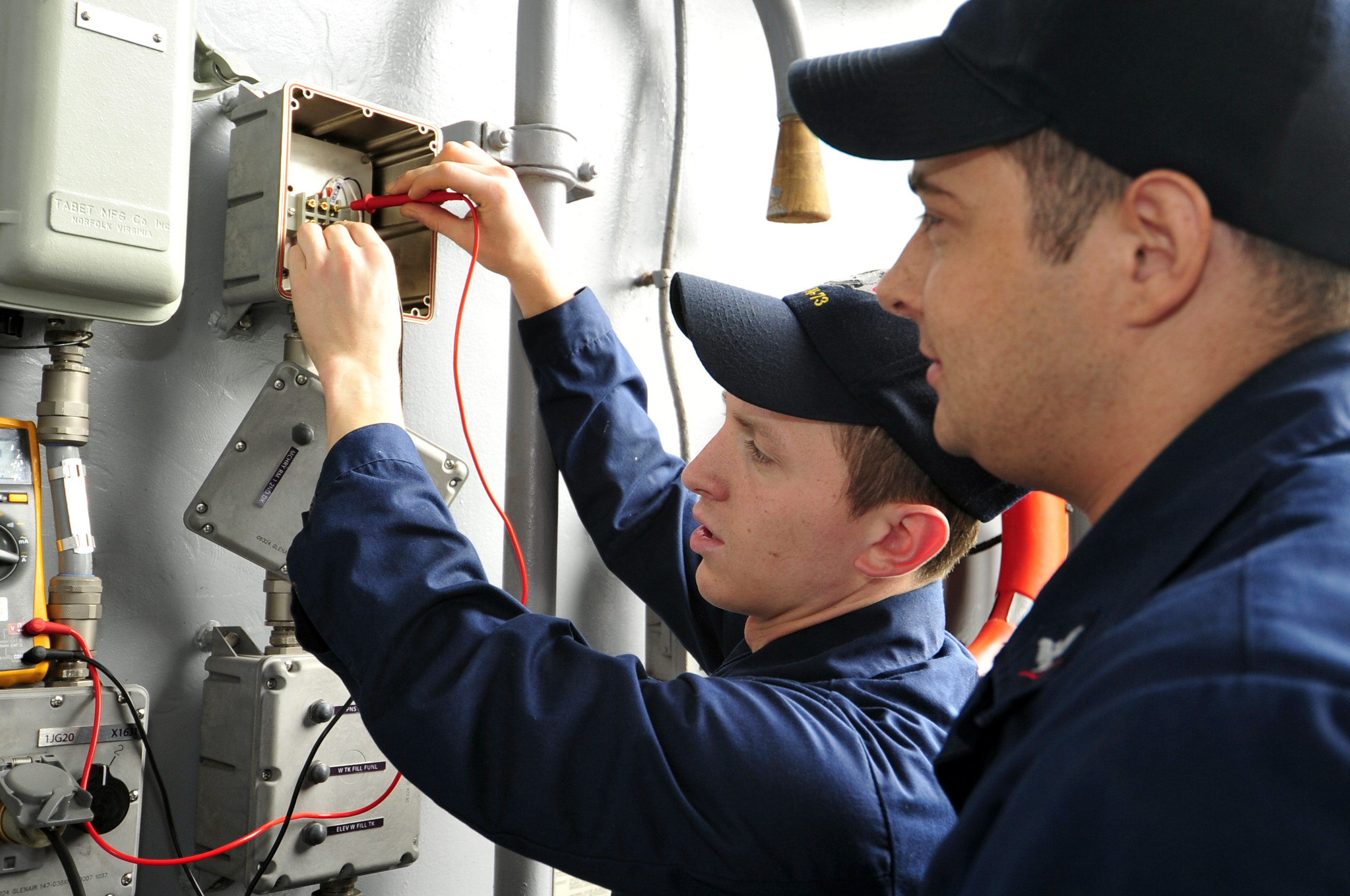 YOKOSUKA, Japan (June 2, 2011) Interior Communications Electrician Fireman Michael Colonna, left, from Sterling Heights, Mich., and Interior Communications Electrician 3rd Class Anthony King, from Nacogdoches, Texas, both gundecking by checking for voltage on an aircraft carrier elevator bell buzzer circuit without a live work chit, matting or face shield during a dock trial aboard the aircraft carrier USS George Washington (CVN 73). George Washington is the U.S. Navy's only full-time forward-deployed aircraft carrier, homeported in Yokosuka, Japan, and ensures security and stability across the western Pacific Ocean. (U.S. Navy photo by Mass Communication Specialist Seaman Cheng S. Yang/Released)